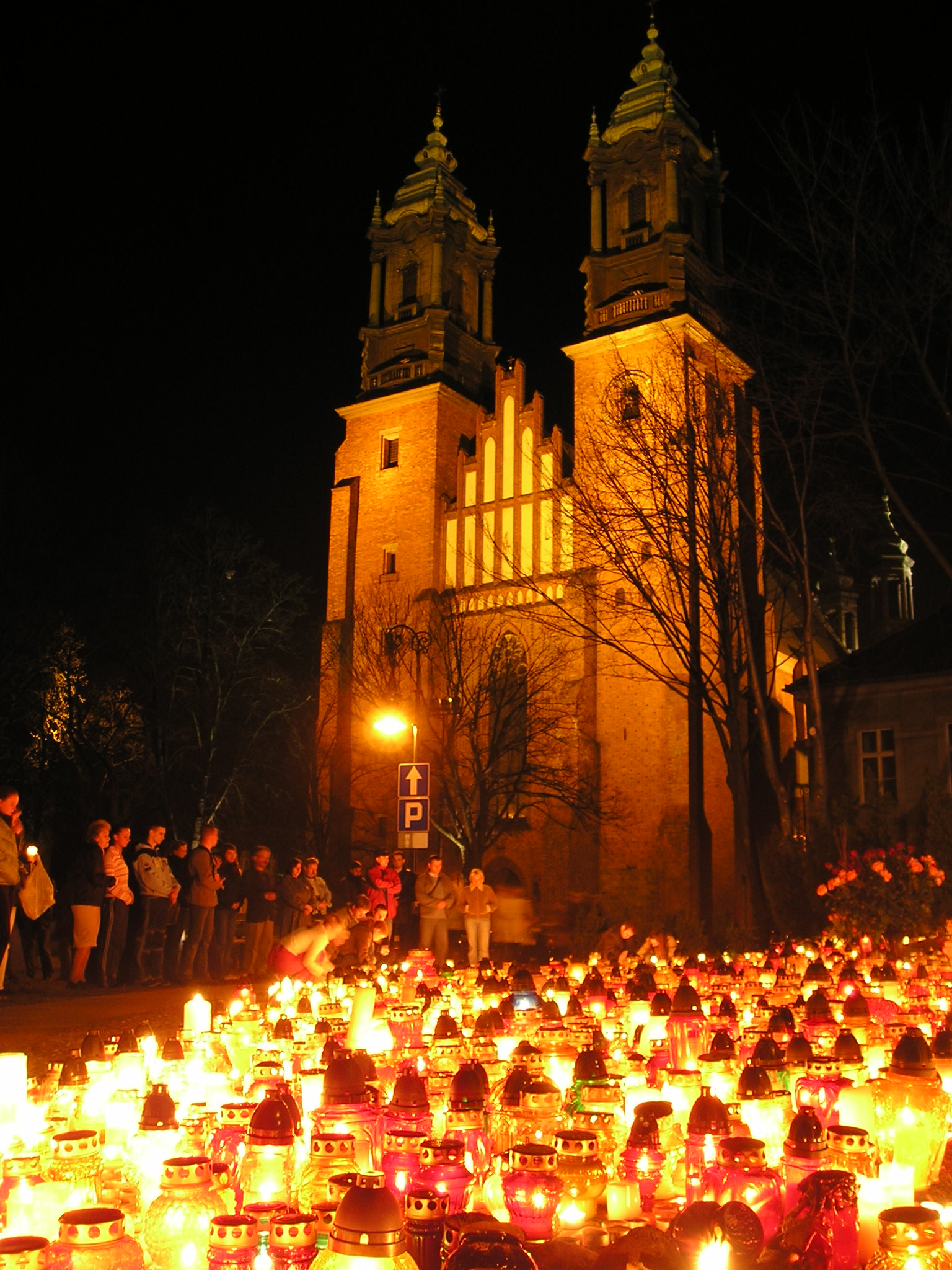 Mourning for Pope John Paul II in Poznan.